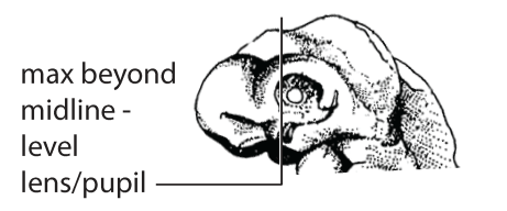 Standard Event System character depiction